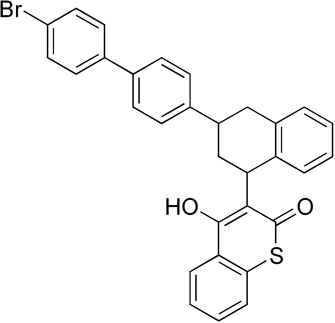 structure of difethialone, a rodenticide